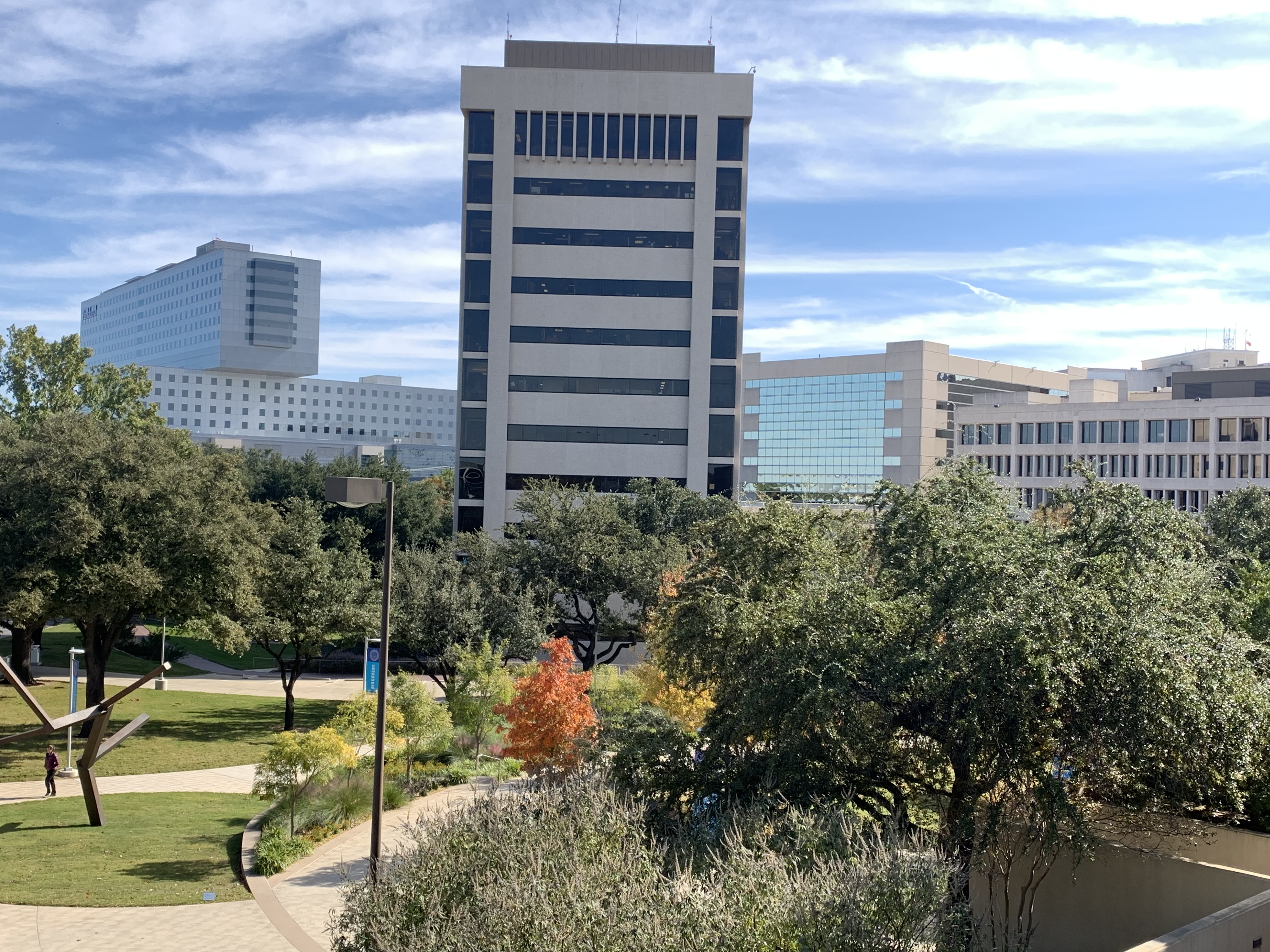 South campus UT Southwestern